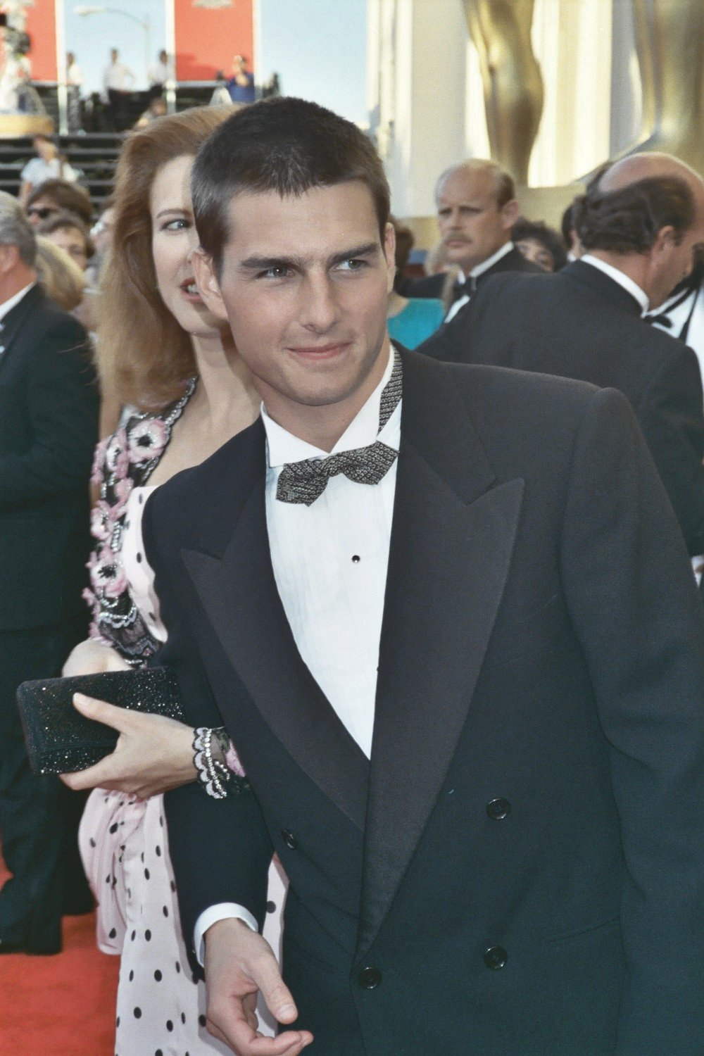 Tom Cruise and wife Mimi Rogers arrive at the 61st Annual Academy Awards, 1989. NOTE: Permission granted to copy, publish, broadcast or post any of my photos, but please credit "photo by Alan Light" if you can. Thanks. Scanned from the original 35MM film negative.